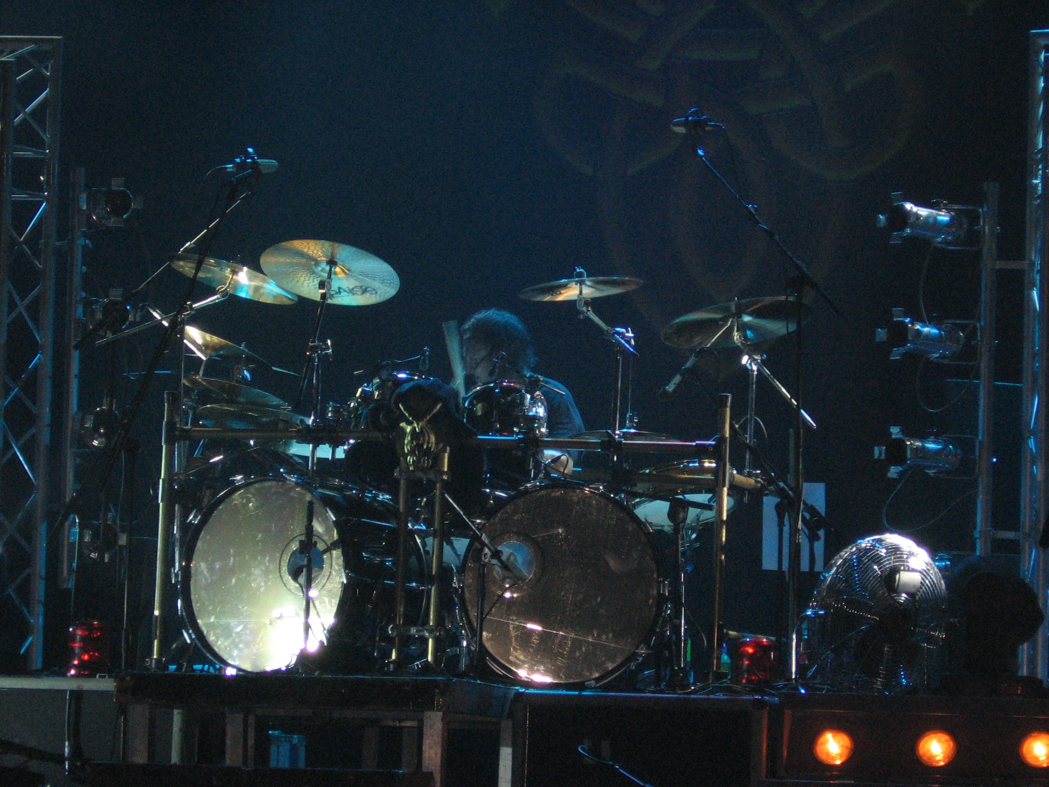 Dan Zimmermann, Gamma Ray's drummer, during a show in Barcelona.